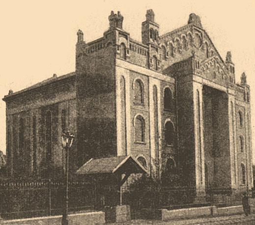 Illustration from Brockhaus and Efron Jewish Encyclopedia (1906—1913)